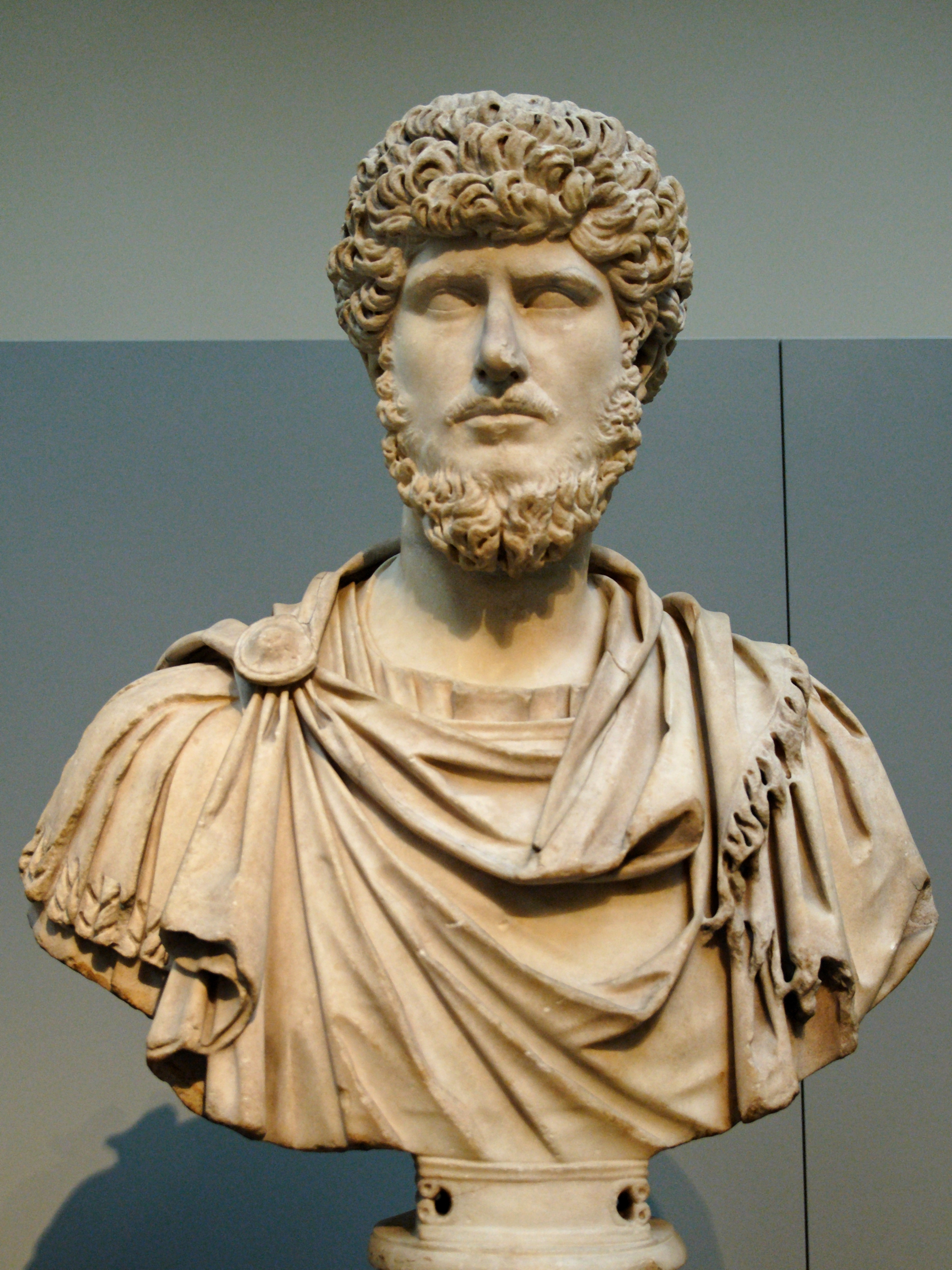 Portrait of Emperor Lucius Verus. Marble, ca. 161-170 AD. From Rome.